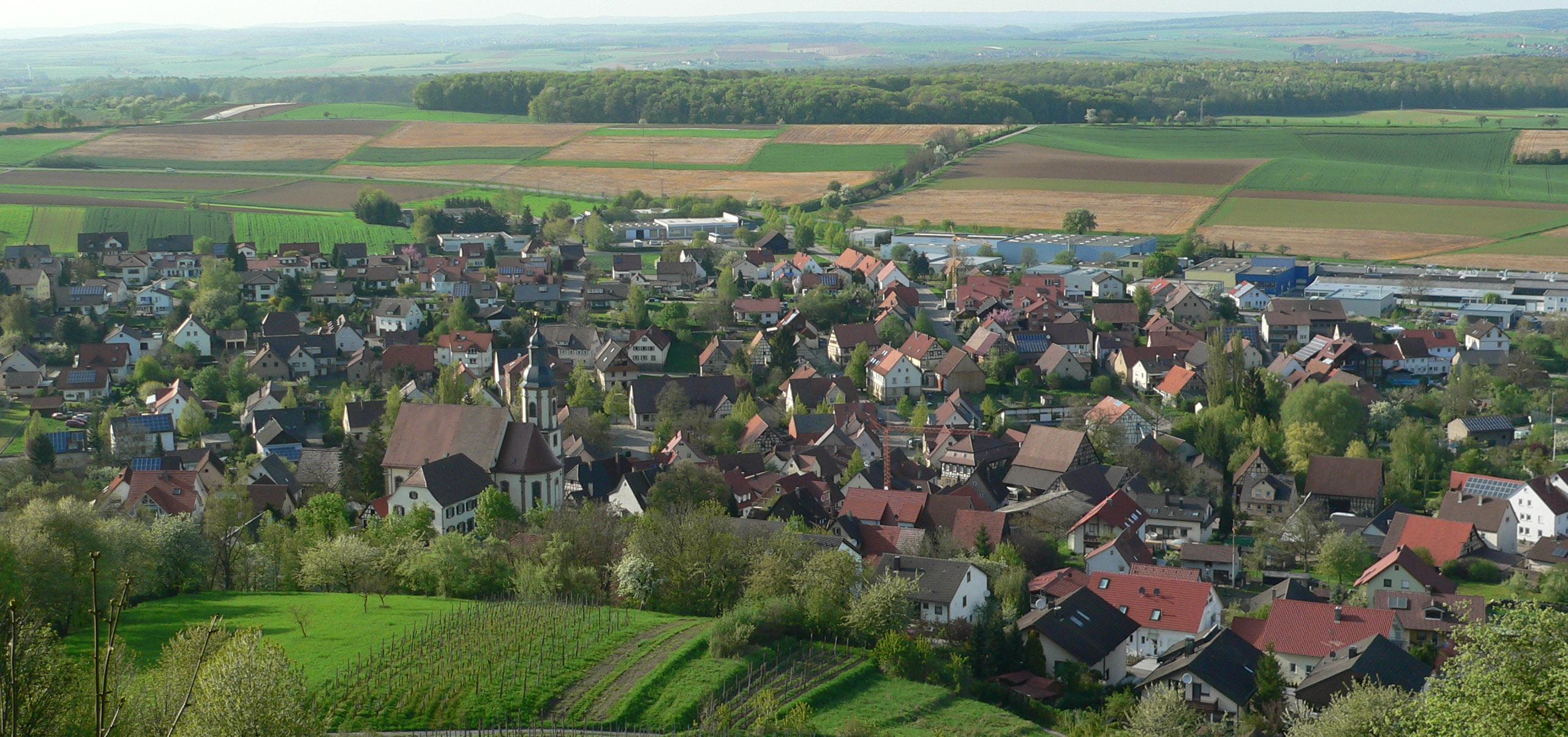 Panoramic View of the Village Neckarsulm-Dahenfeld